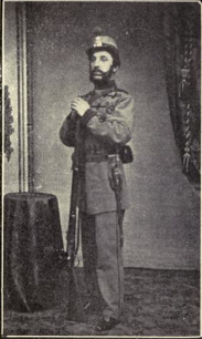 Private Richard Lawson, Chebucto Grays Full Dress Uniform